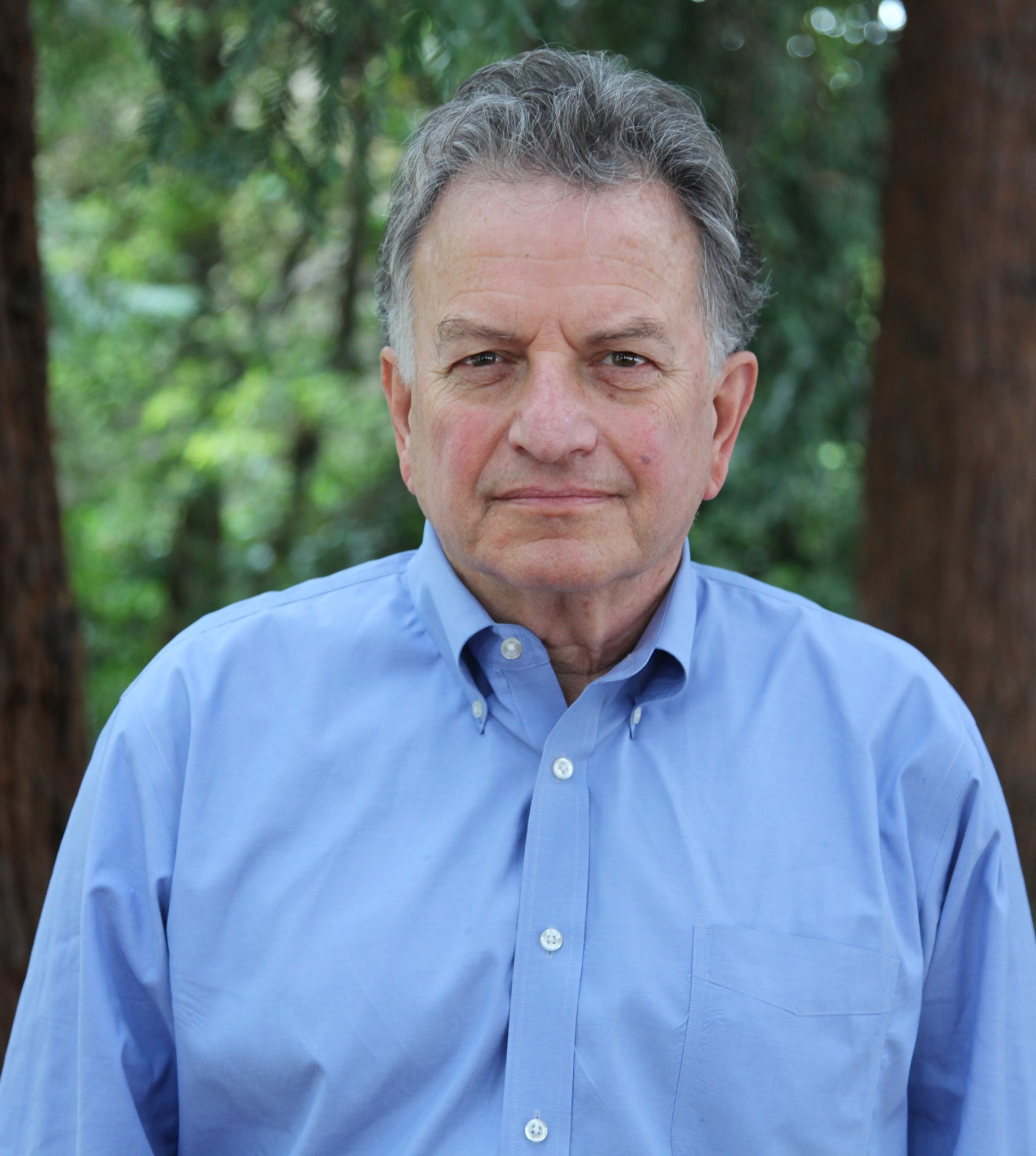 Lowell Bergman